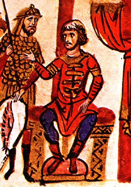 Khan Omurtag of Bulgaria, from the Chronicle of John Skylitzes